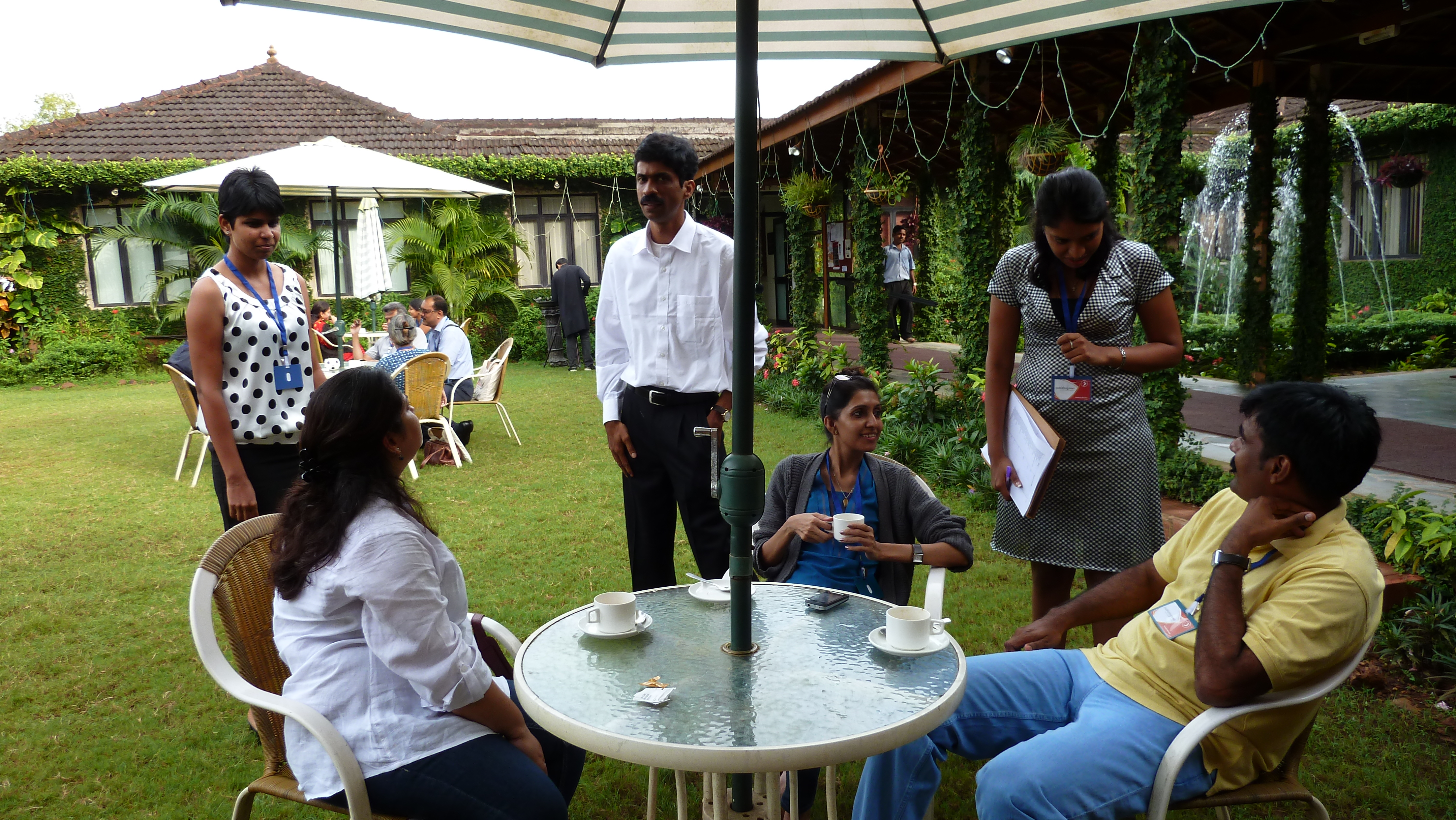 Publishing Next 2011. Organised at the International Centre Goa. Offstage.